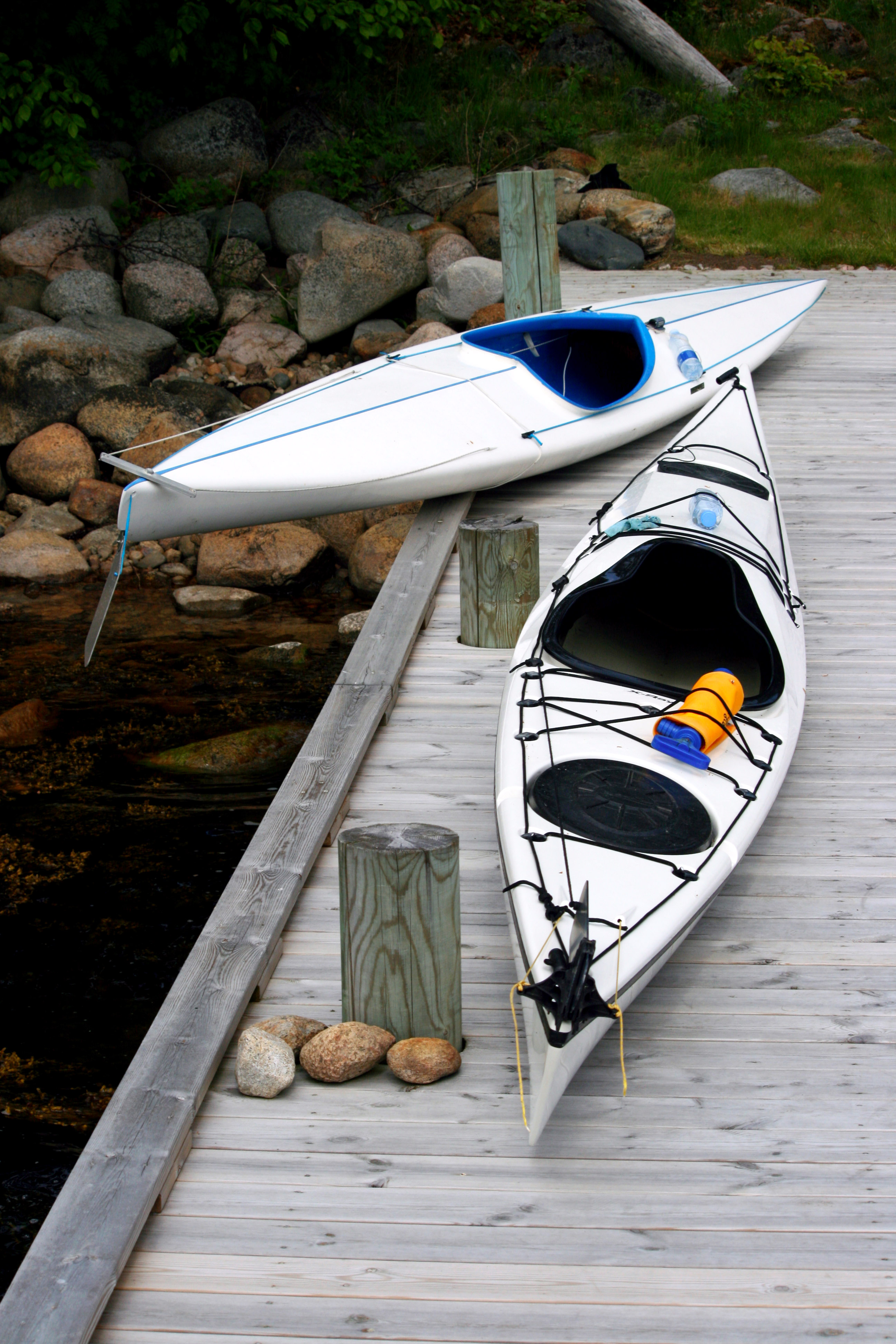 2 kayaks